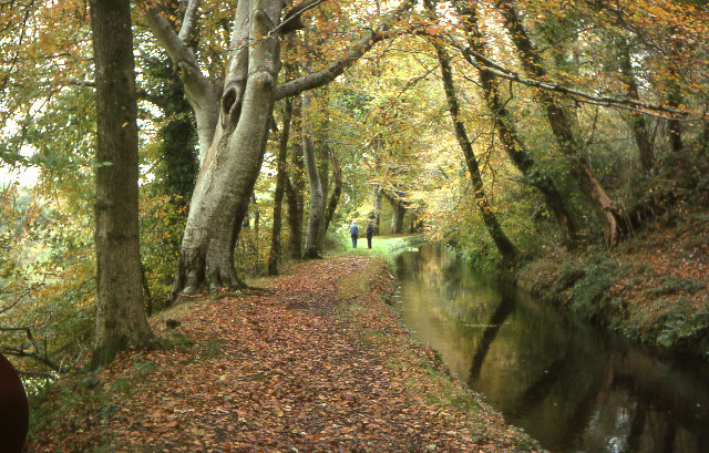 Tavistock Canal, Lumburn Valley. The canal was used to transport ore from the Mary Tavy mines on eastern Dartmoor to the river Tamar and to import timber and coal. It is now used as a water supply for a hydro electric generating station on the banks of the river Tamar at Morwellham. The canal's waters flow south westward, entering the canal in Tavistock from the river Tavy. At Buckton the canal enters a tunnel under Morwel Down before emerging high above Morwellham. For more information see the Wikipedia article Tavistock Canal.